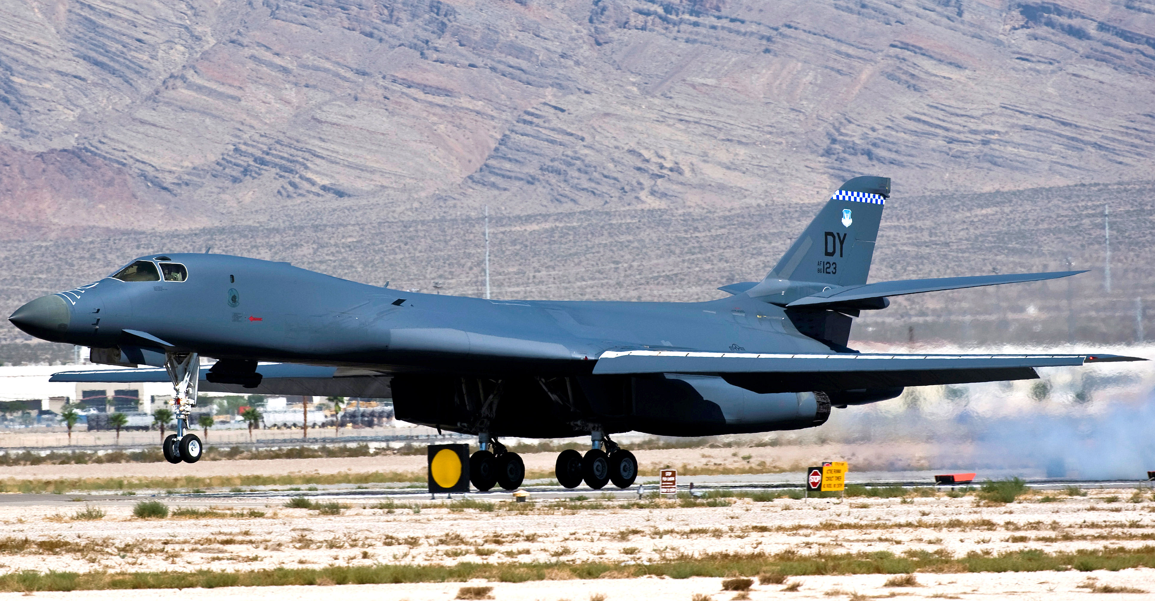 A U.S. Air Force B-1B Lancer from Dyess Air Force Base, Texas, lands after a training mission during Green Flag-West 11-10 Sept. 20, 2011, at Nellis AFB, Nev. Green Flag-West provides a realistic close-air support training environment for forces preparing to support worldwide combat operations.(U.S. Air Force photo by Senior Airman Brett Clashman/Released)